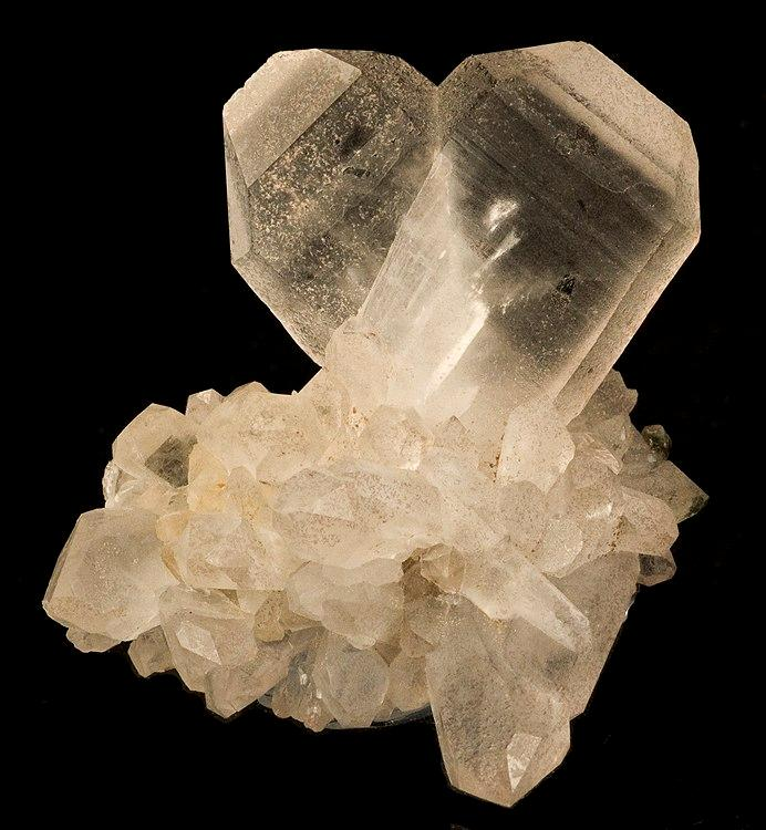 Quartz Locality: Pampa Blanca, Ica Department, Peru (Locality at ) Size: 4.9 x 4.5 x 4.2 cm. A very aesthetic Japan-law twin quartz crystal specimen from recent finds in Peru. The Japan-law twin is superbly set on a bed of quartz points and looks great from either side. The lustrous, flattened, tabular crystals are water-clear to lightly frosted, striated and have interesting, beveled edges. This is an excellent Japan-law quartz crystal specimen, with textbook crystal form.